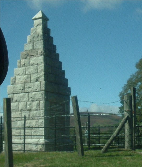 War Memorial, Tarfside, Angus